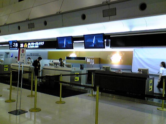 Japan Airlines "Global Club" members check in counter, Haneda Airport